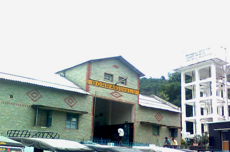 Borra Guhalu(caves) Train station, Visakhapatnam district